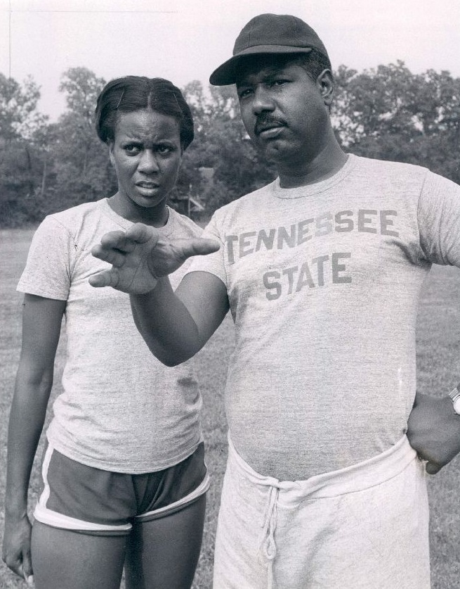 Jason Bernard & Shirley Jo Finney in the TV movie Wilma in 1977